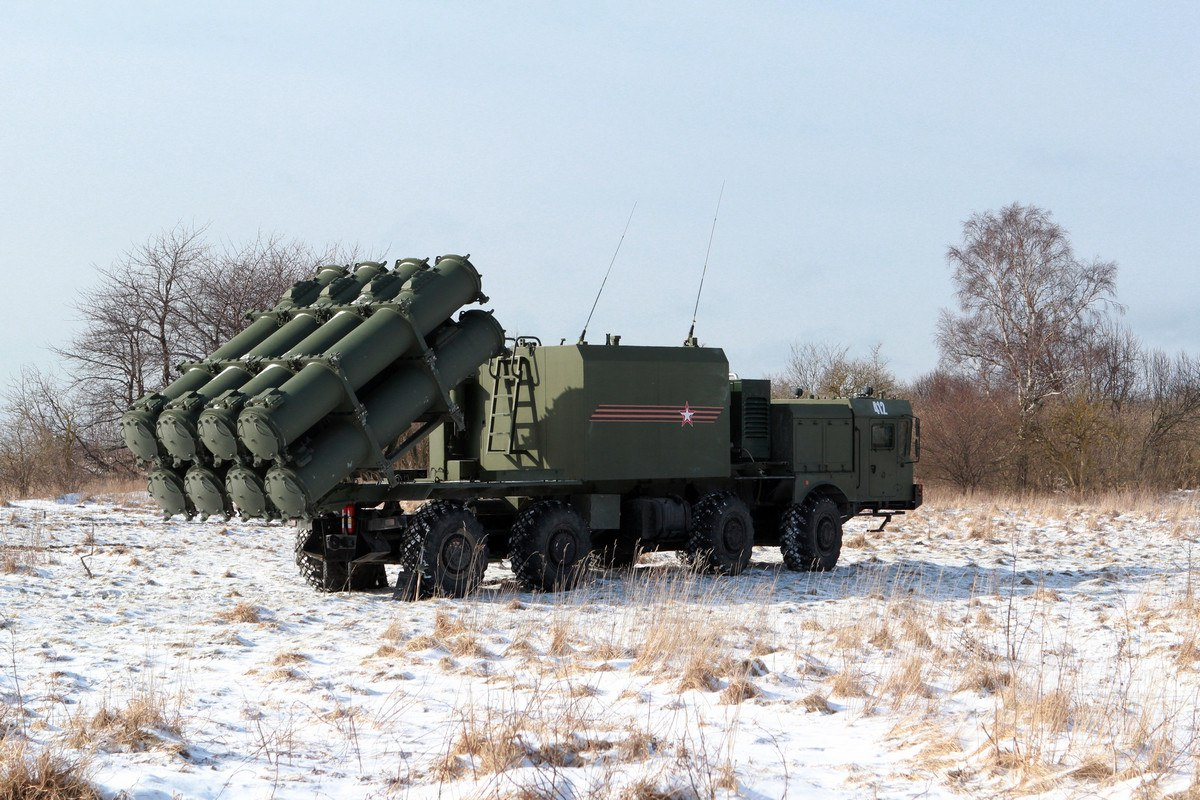 Bal coastal missile system.